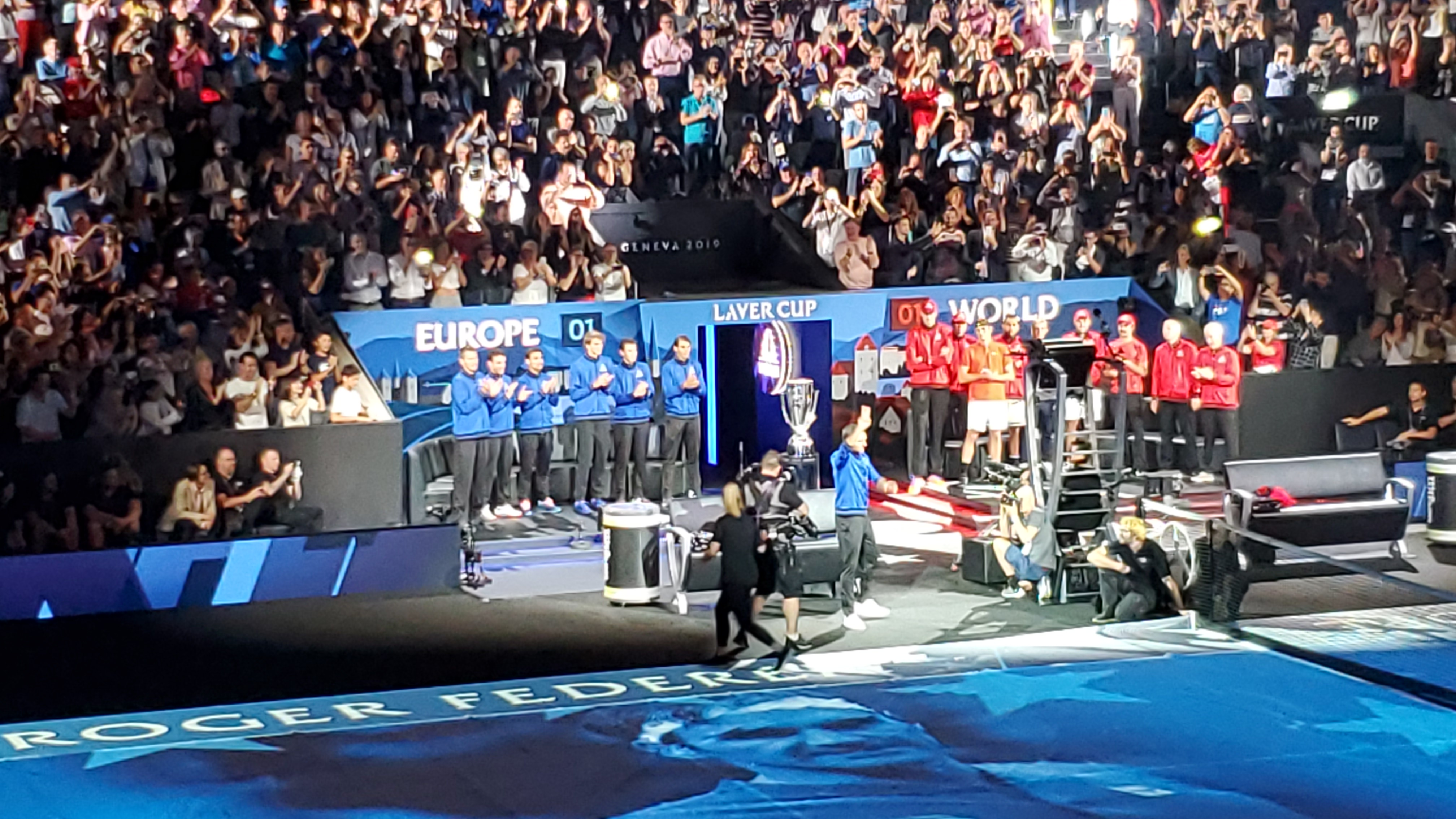 Laver Cup Roger Federer intro